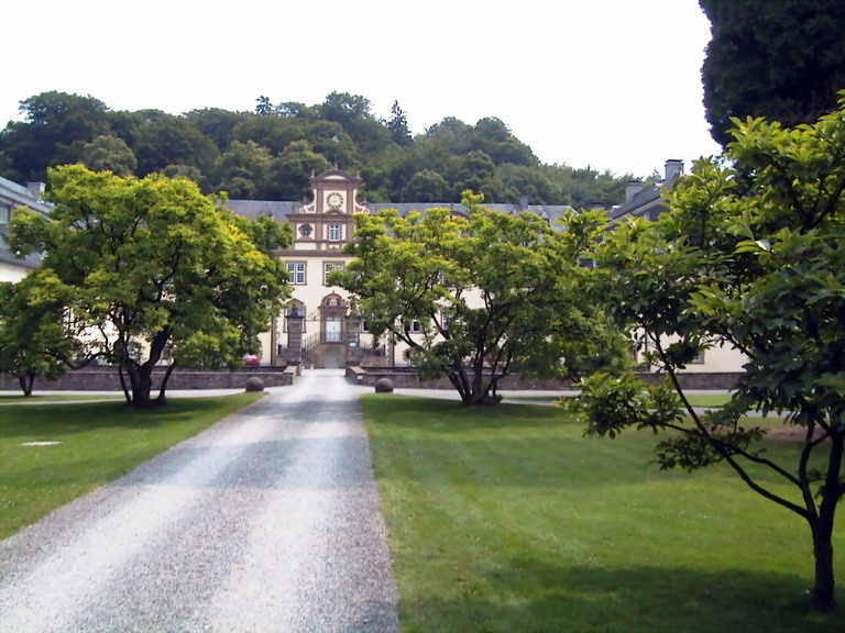 View at castle Ehreshoven. Author mrfinch Time of creation 2002 Licence GNU FDL and CC-by-SA Camera Canon F 1